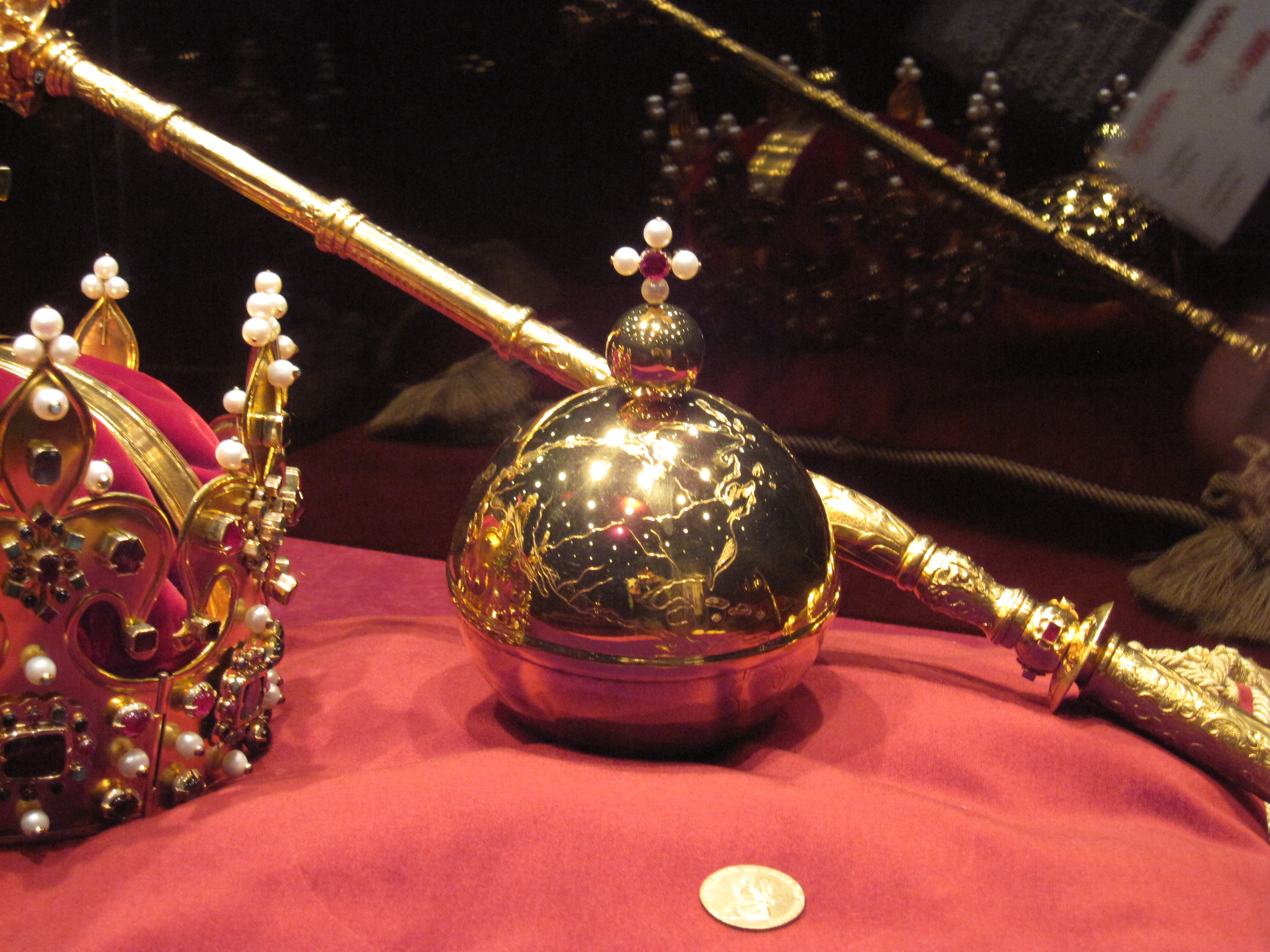 Polish crown jewels, consisting of the crown of Bolesław I the Brave, and the orb and sceptre used by Stanislaus II August of Poland. Copies were made in 2001-2003.